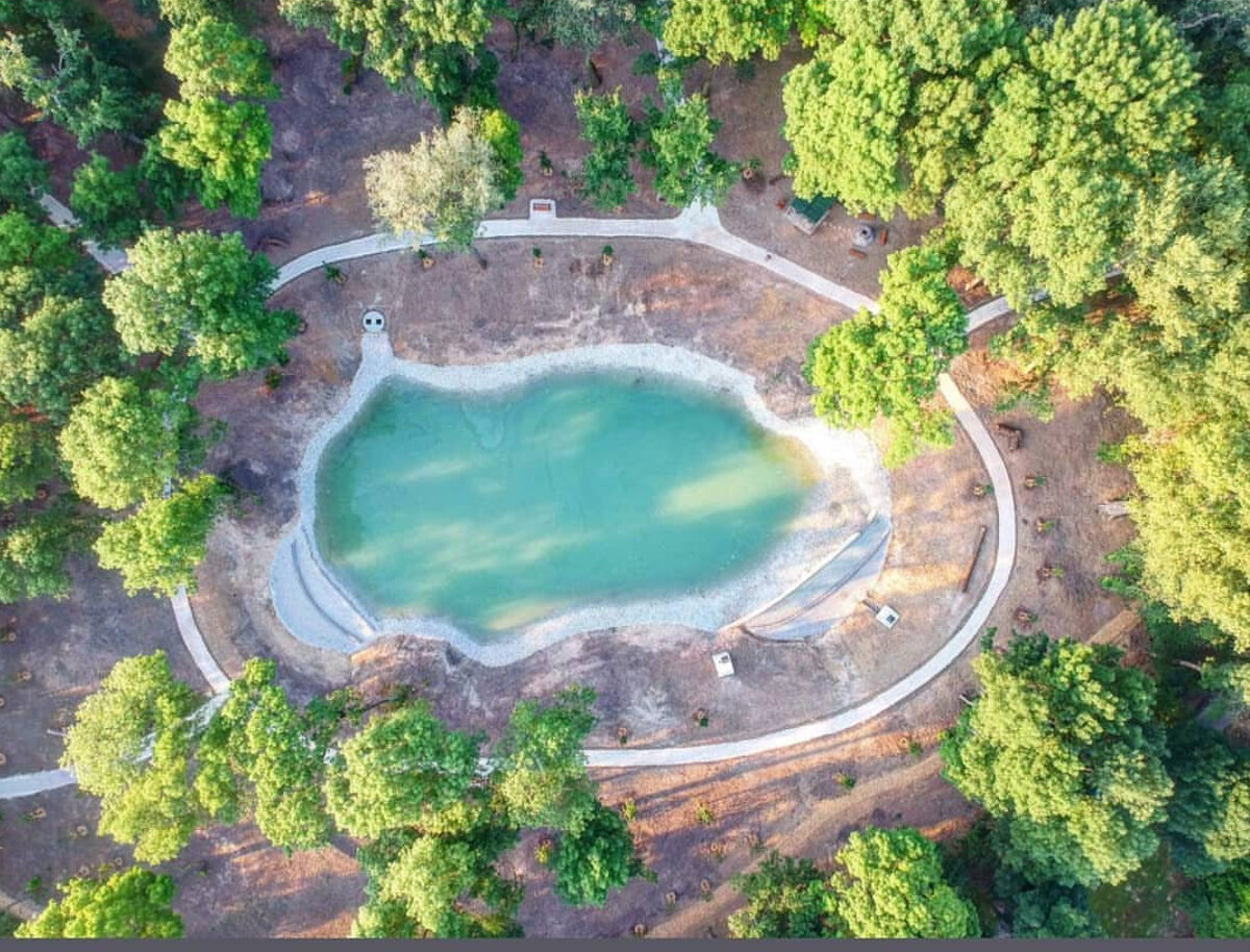 The Štrky Forest Park in Trnava, Slovakia was revitalized in 2019